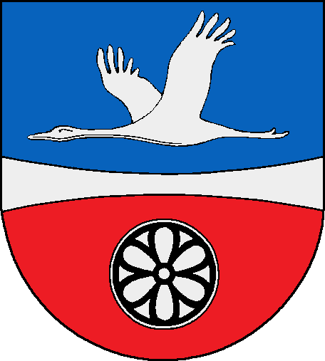 Coat of arms of the municipality Brunsbek in Schleswig-Holstein, Germany.